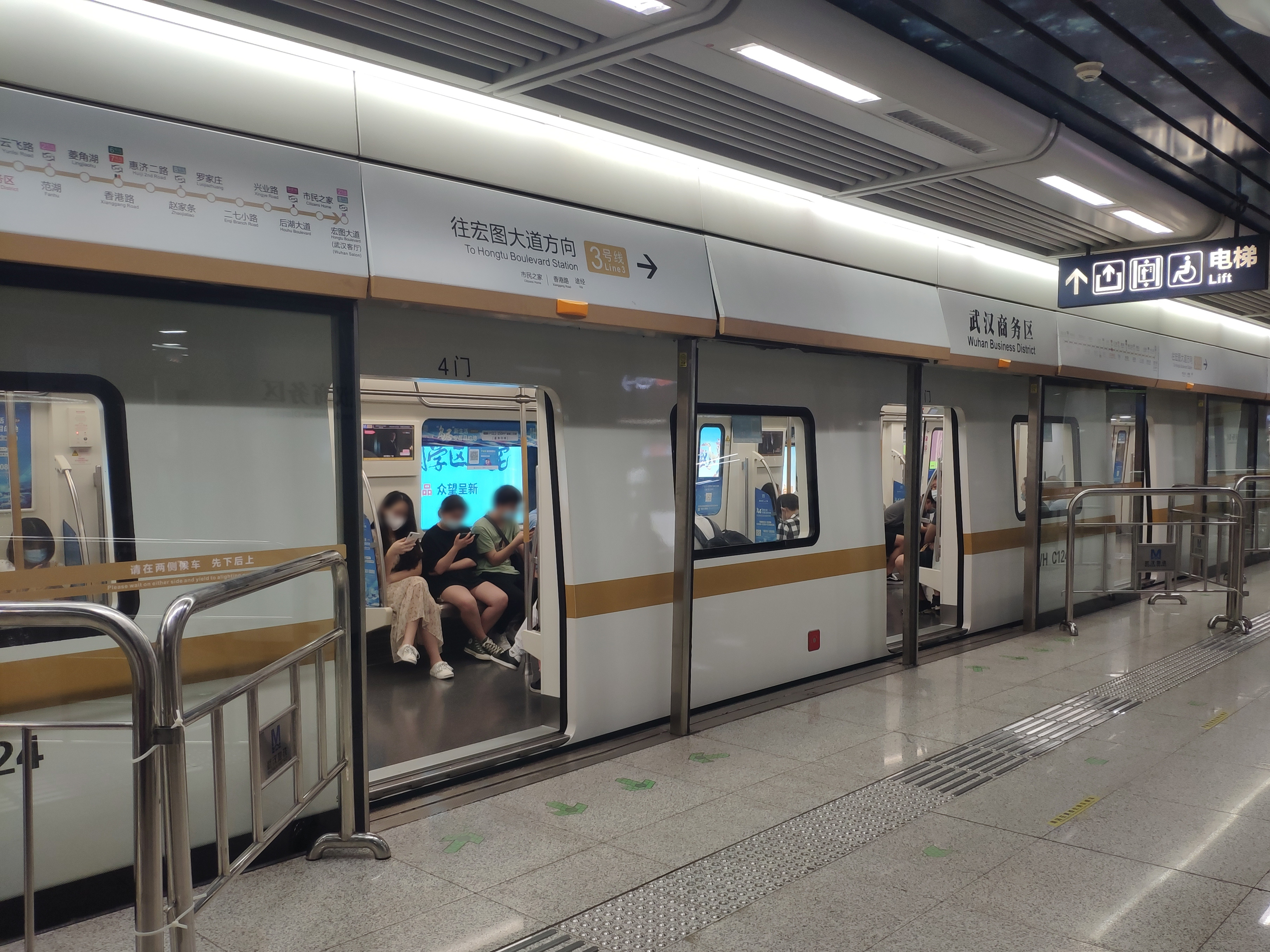 After an accident brought by a cleaning equipment, all the glasses of the screening doors on this side of platform are smashed.